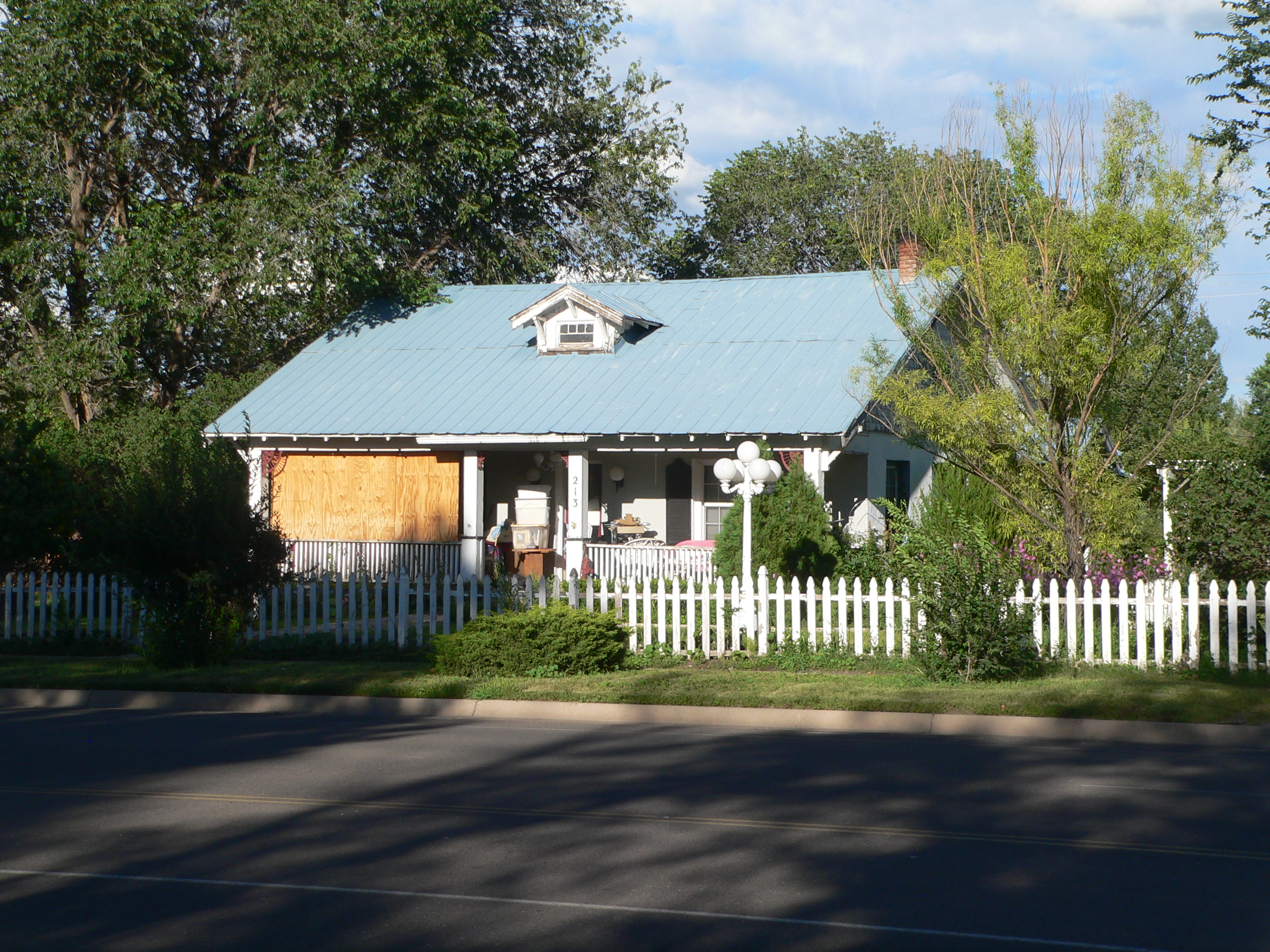 House at 213 N. Main Street in Eagar, Arizona. The house is a contributing property in the Eagar Townsite Historic District, listed in the National Register of Historic Places.